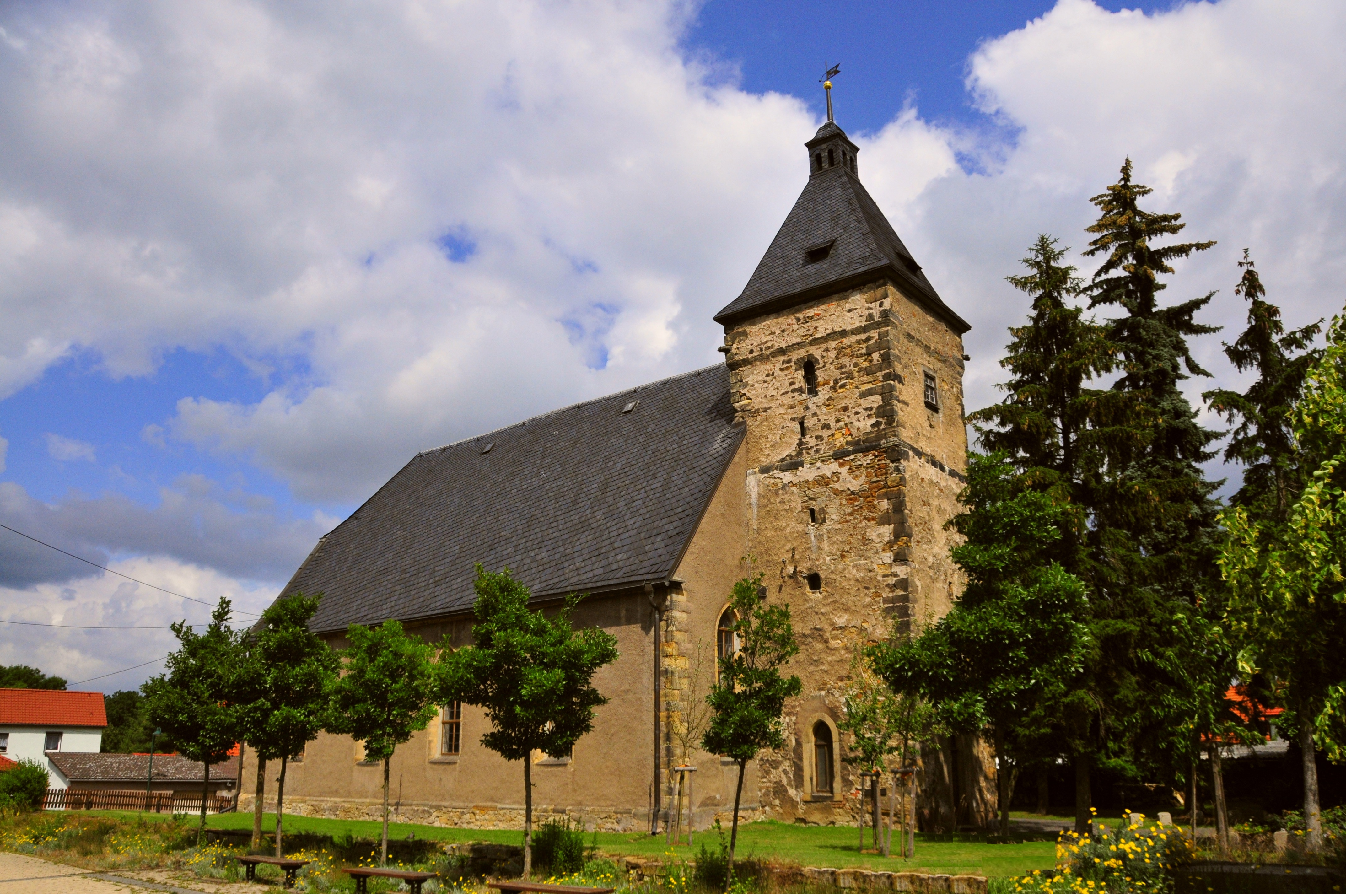 Church in Uelleben, district of Gotha